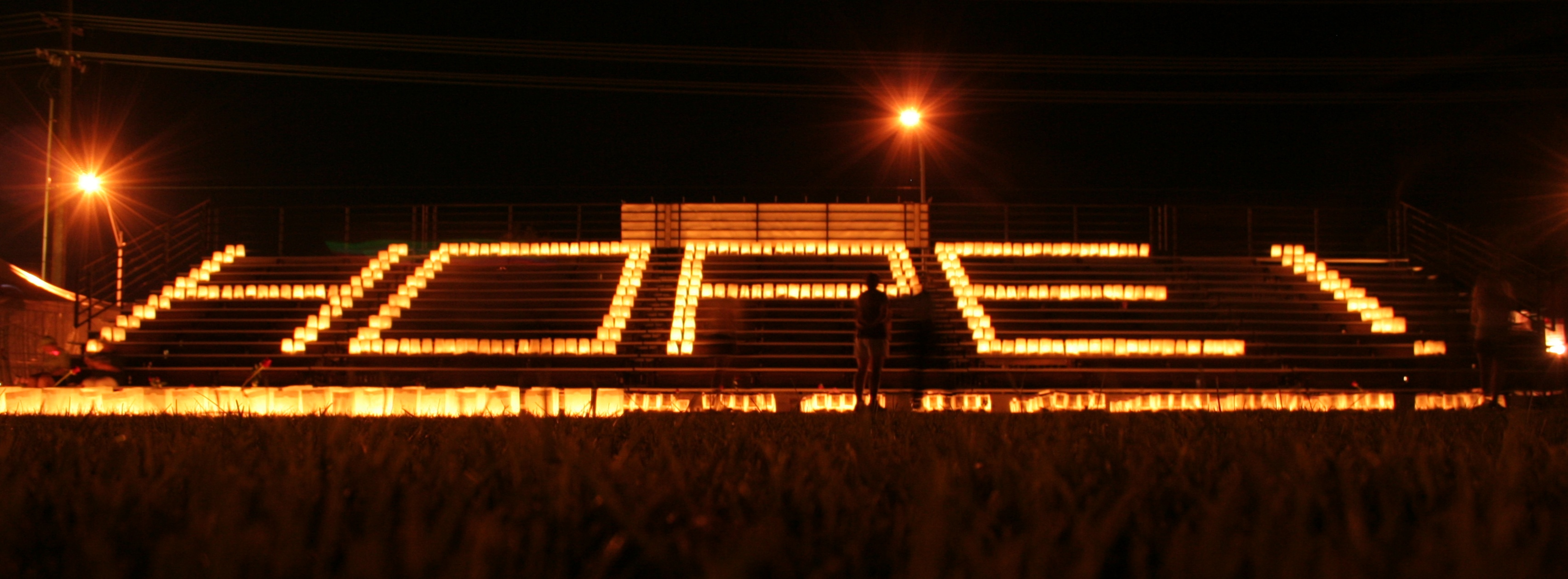 Relay for life luminaries "hope!"